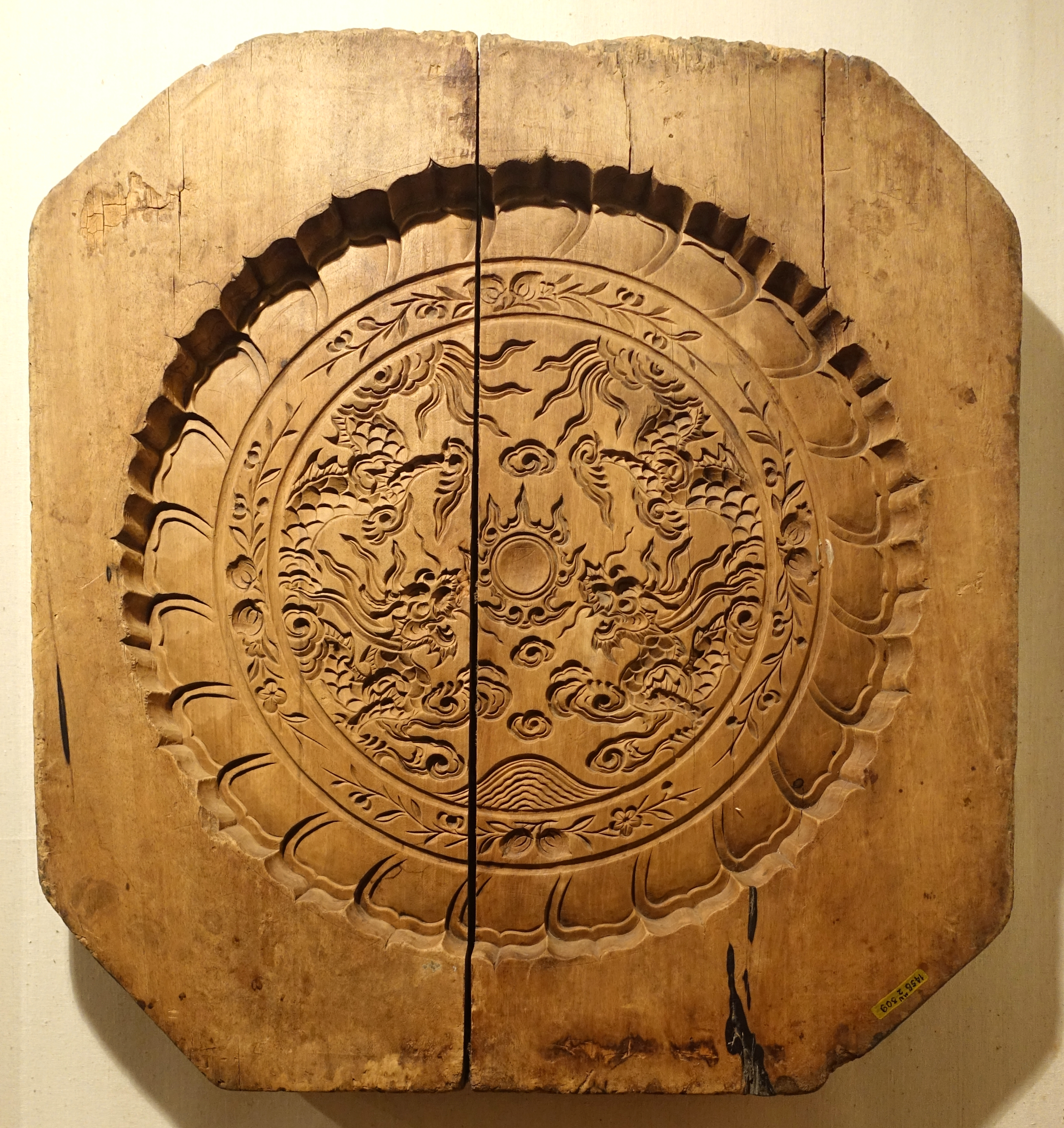 Exhibit in the Vietnam National Museum of Fine Arts - Hanoi, Vietnam. This artwork is old enough so that it is in the public domain.